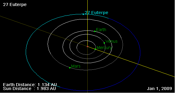 27 Euterpe orbit, and his position on 01 Jan 2009 (NASA Orbit Viewer applet)